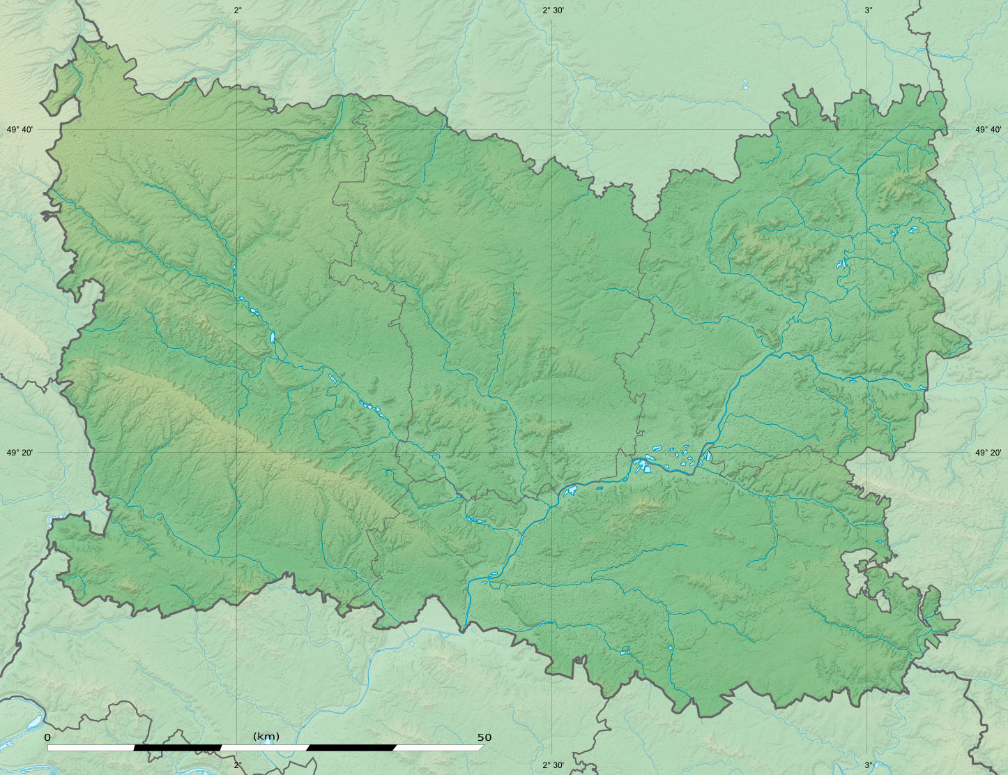 Blank physical map of the department of Oise, France, as in December 2014, for geo-location purpose, with distinct boundaries for regions, departments and arrondissements.